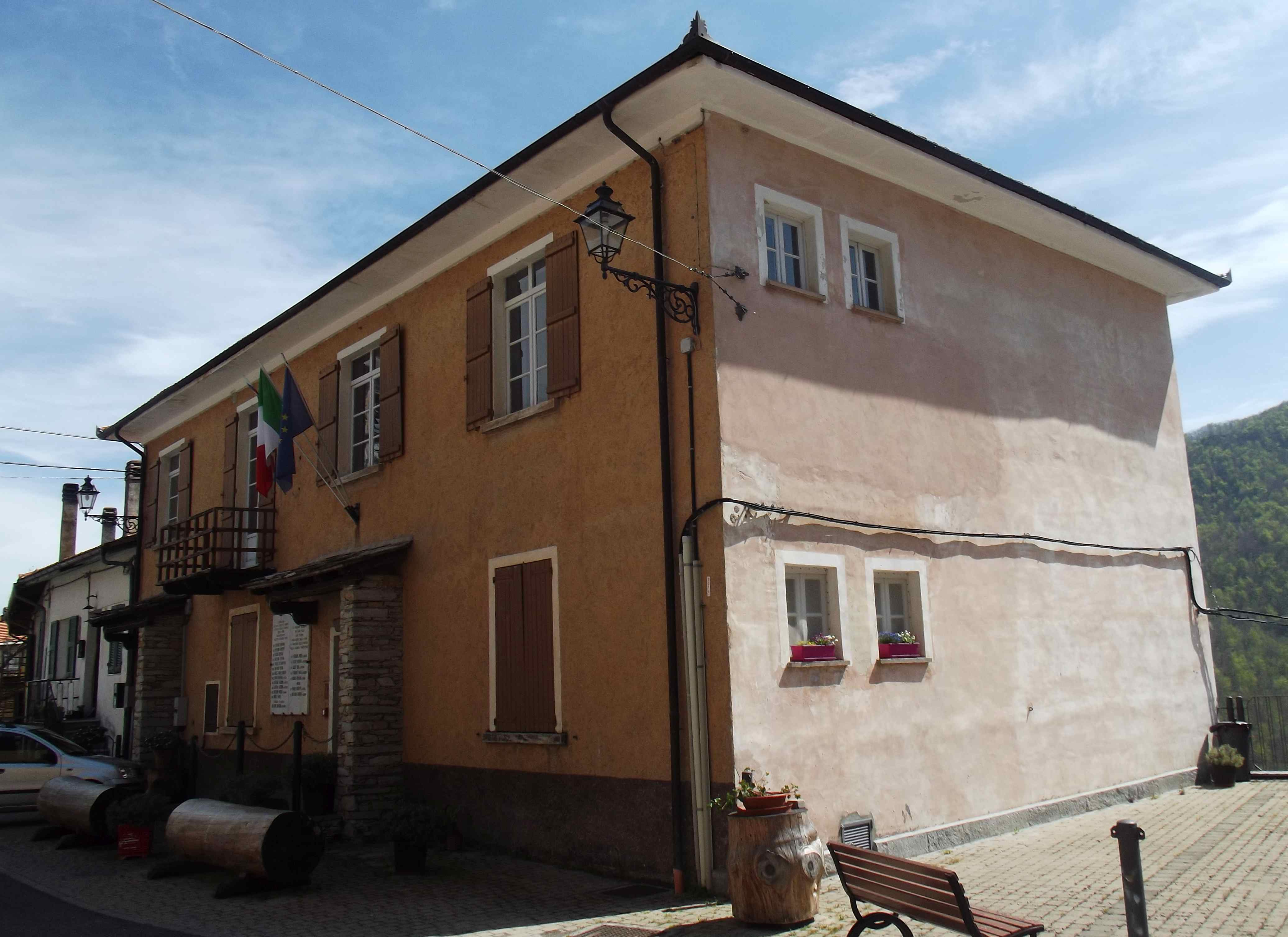 Caprauna (CN, Italy): town hall